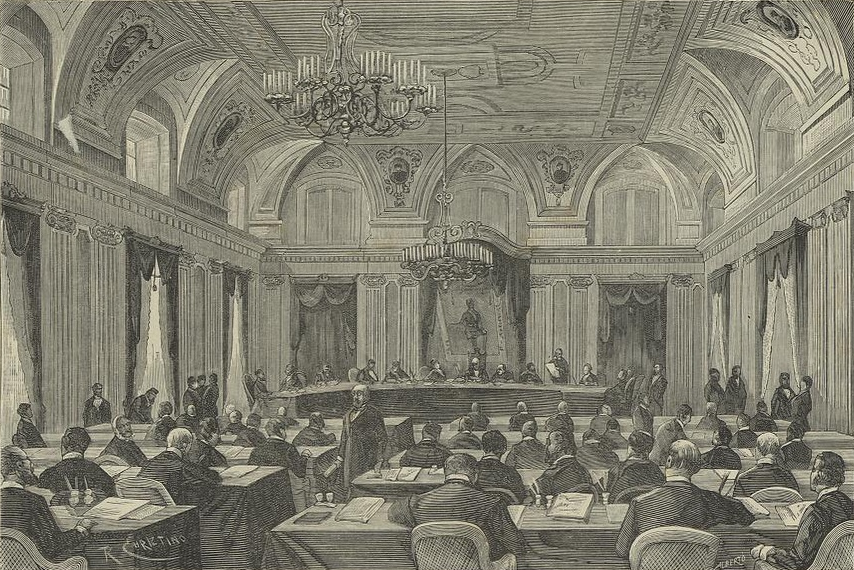 A session of the Postal Union Congress in 1885, held in the main chamber of the Portuguese Supreme Court in Lisbon.